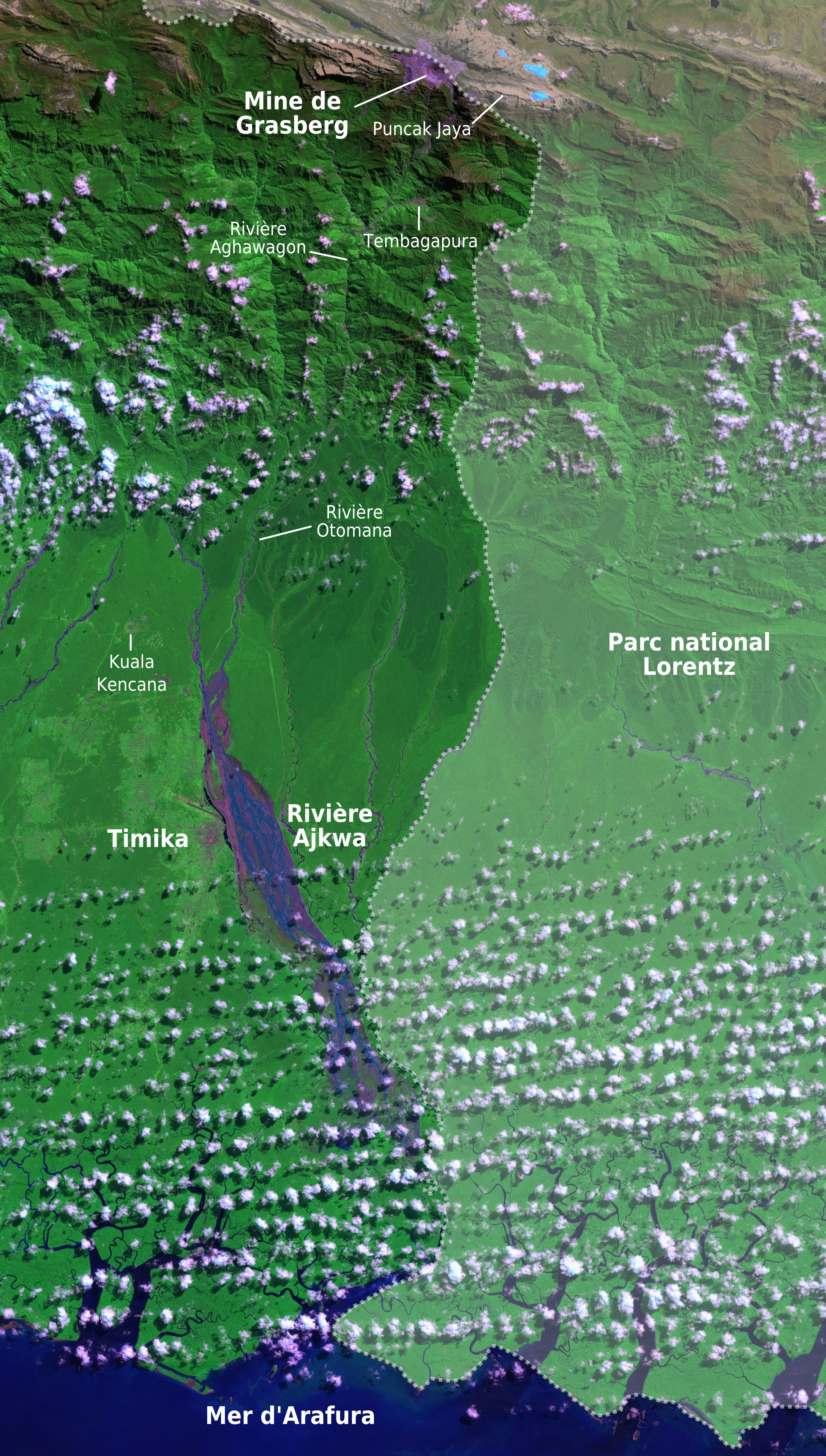 Photomap showing wastewaters in Ajkwa river, Papuasia, Indonesia, in 2003-05-29. The Crasberg mine debris washed downstream from the mine appears in deep purple in the river.